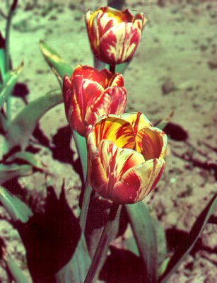 Tulip infected with tulip breaking virus (TBV)